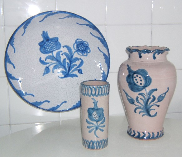 Three pieces of pottery from Fajalauza (Albaicín, Granada) Spain.